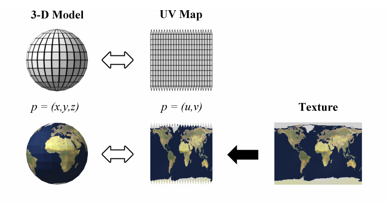 A depiction of how UV-Mapping works, showing the classic example of mapping a globe. It depicts the object in both XYZ and UV spaces.